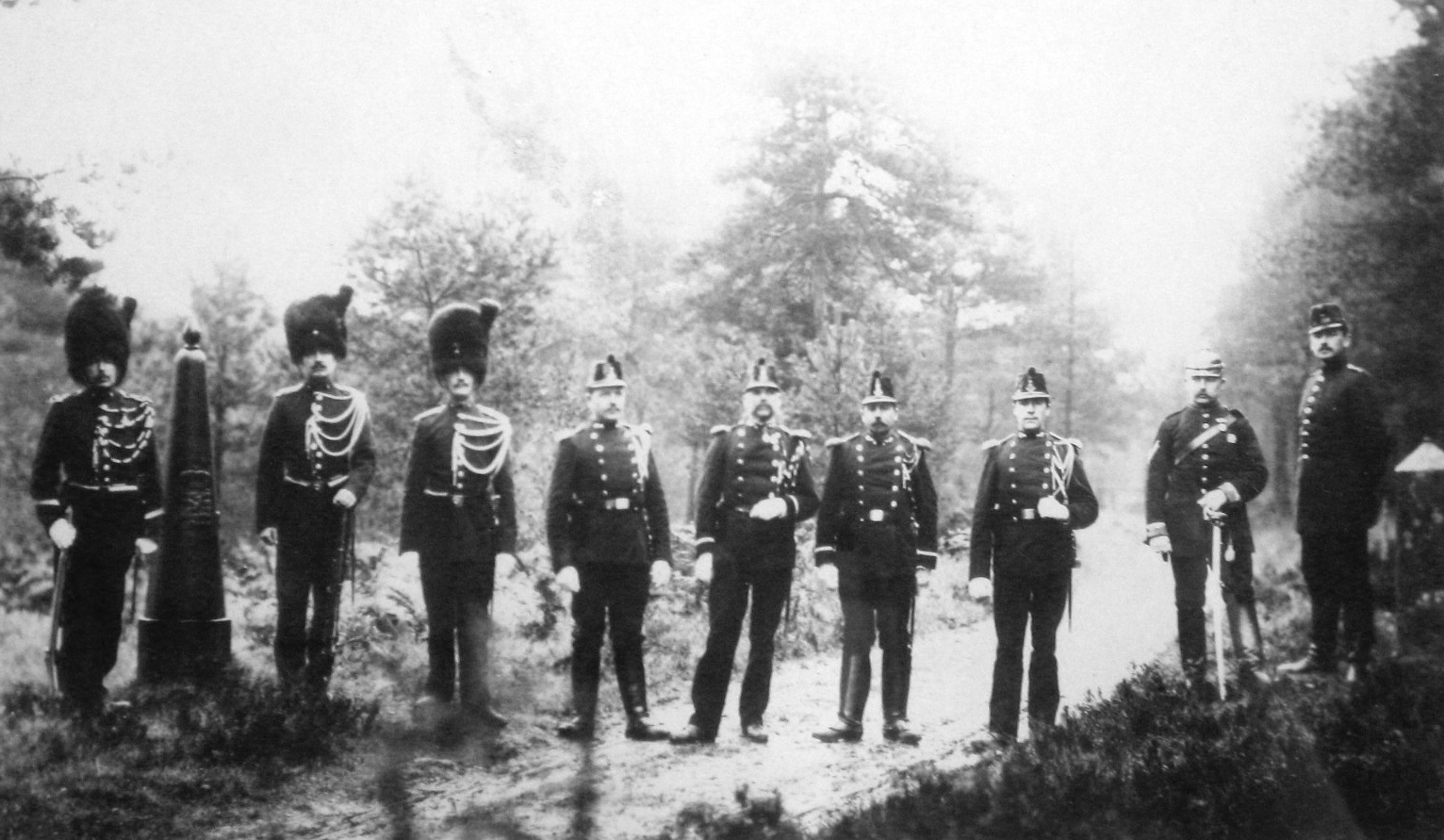 Former tripoint of Belgium, Luxembourg and Germany North of Huldange. Picture taken around 1910. Belgian, Luxembourgian and Prussian gendarmes/border guards standing between belgo-luxembourgian boundary mark LB 286 (left) and german-luxembourgian boundary mark 75 (right).